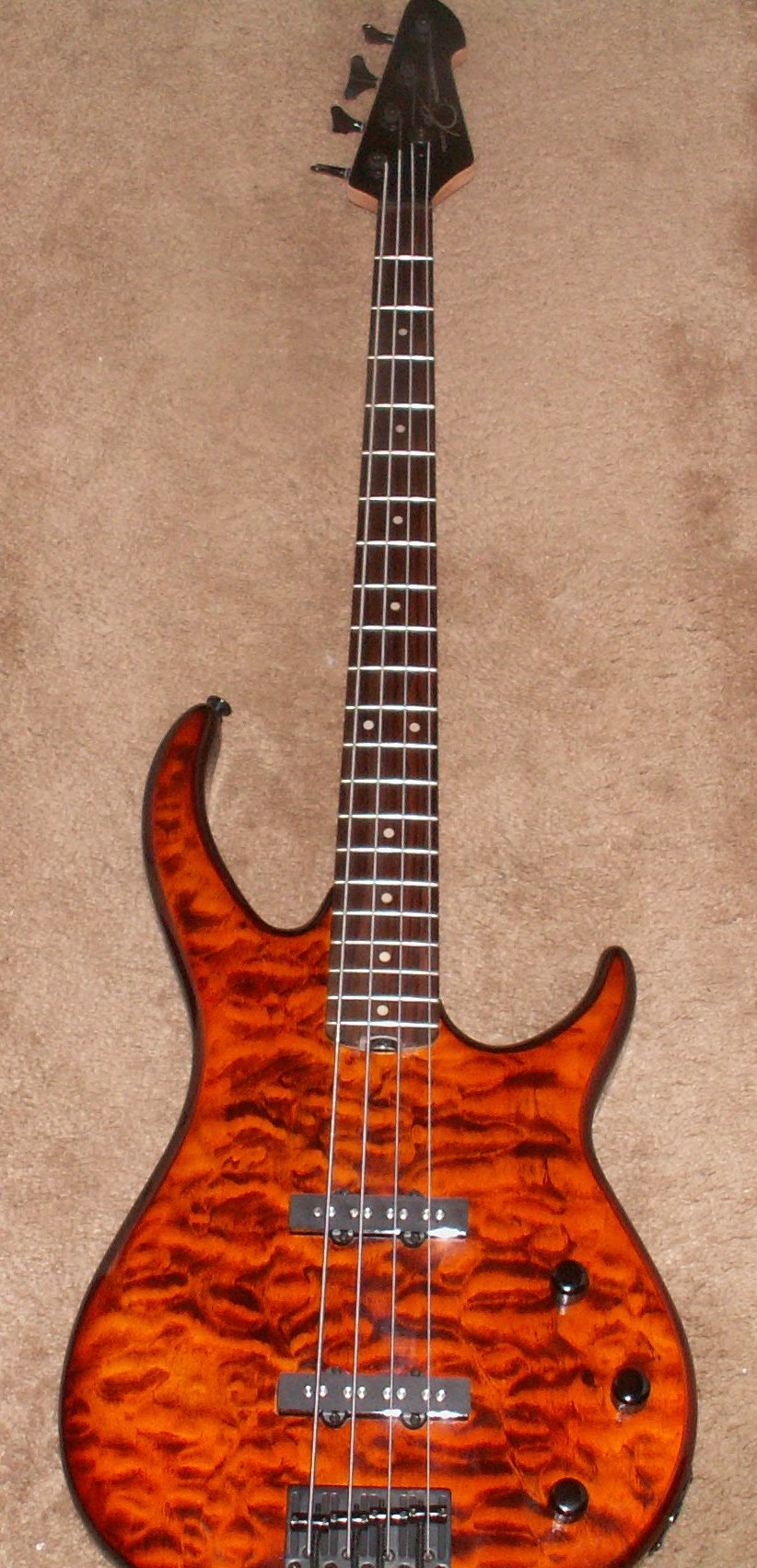 My Peavey Millennium BXP bass. Taken with my digital camera.